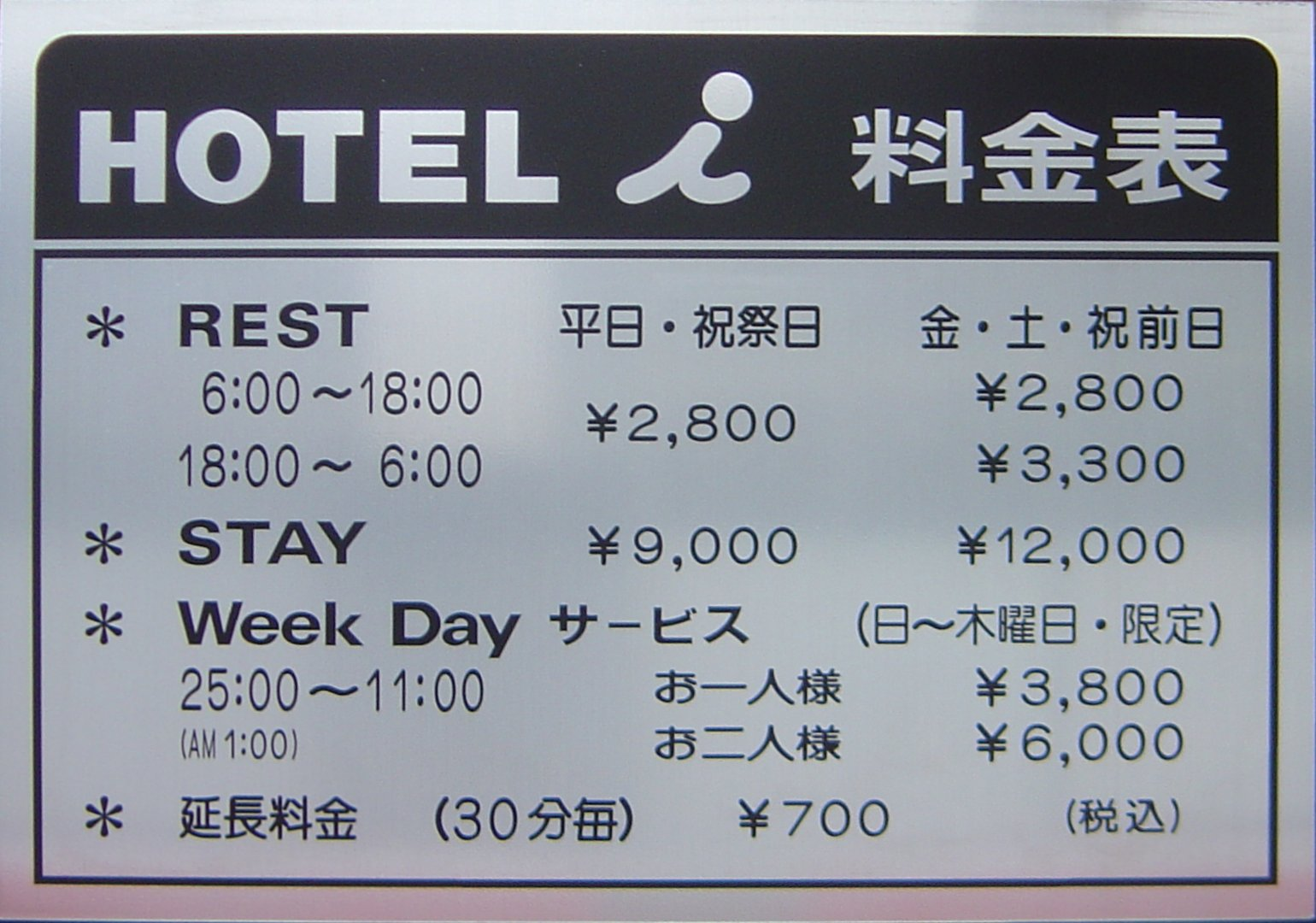 A sign for a love hotel in Shinjuku, Tokyo, Japan (color readjustment)